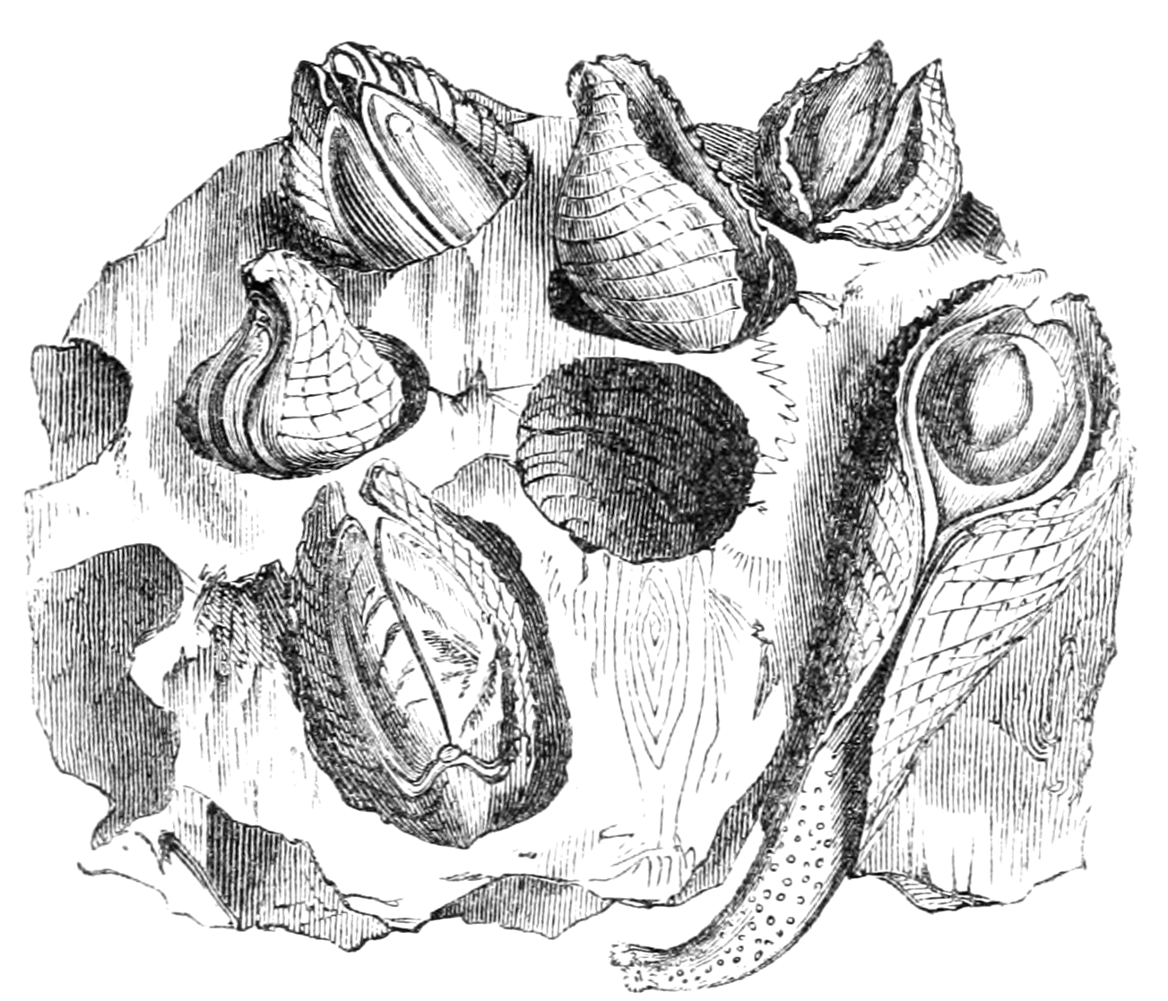 Illustration from Natural History: Mollusca (1854), p. 33 - "Pholas" (from the text, probably P. dactylus)